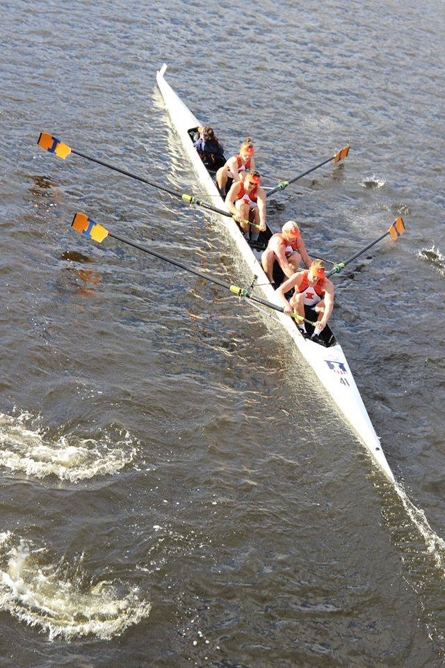 The Men's Coxed Four that the University of Illinois sent to Head of the Charles in 2015.